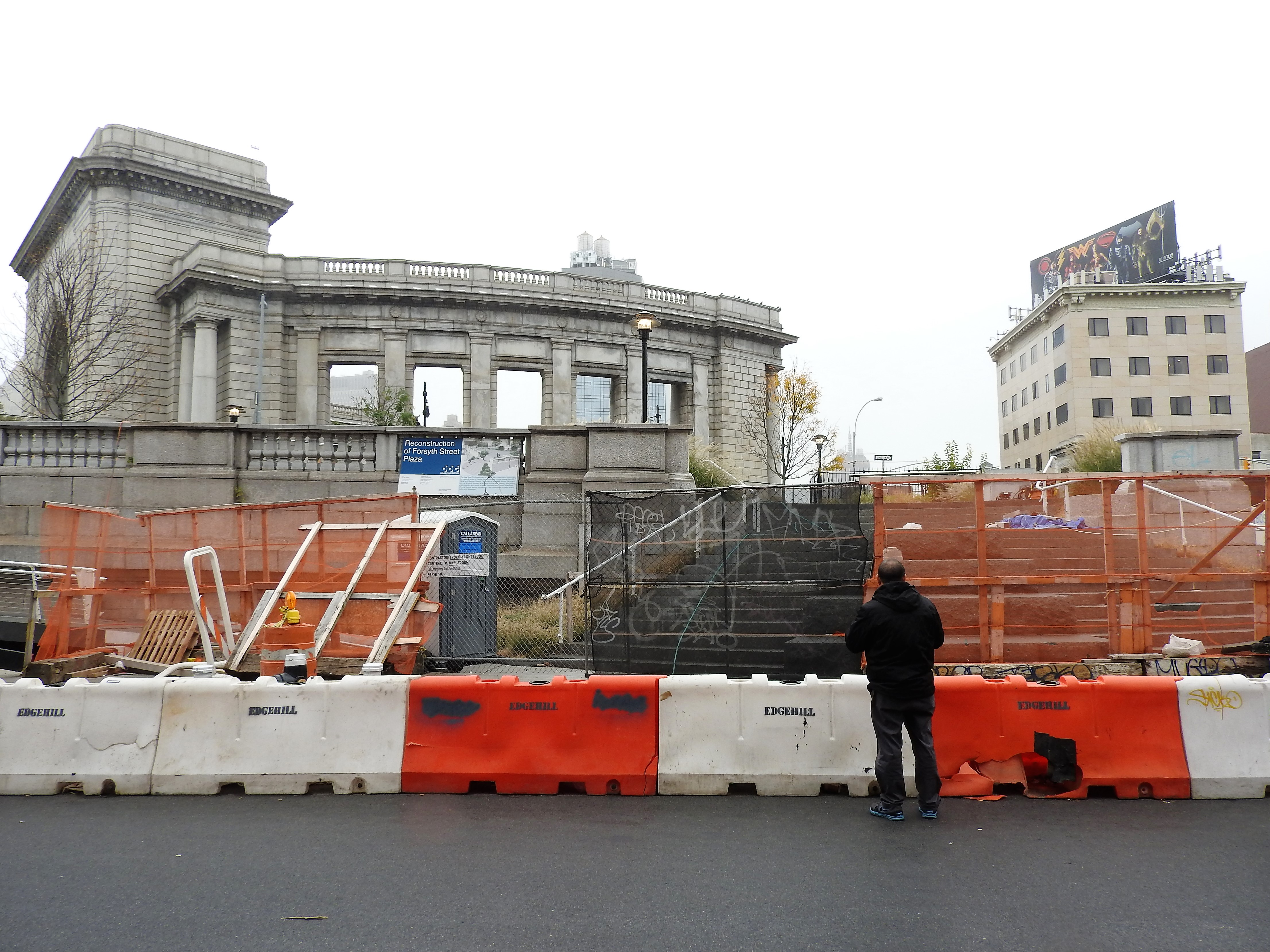 Looking south at elevated plaza under construction